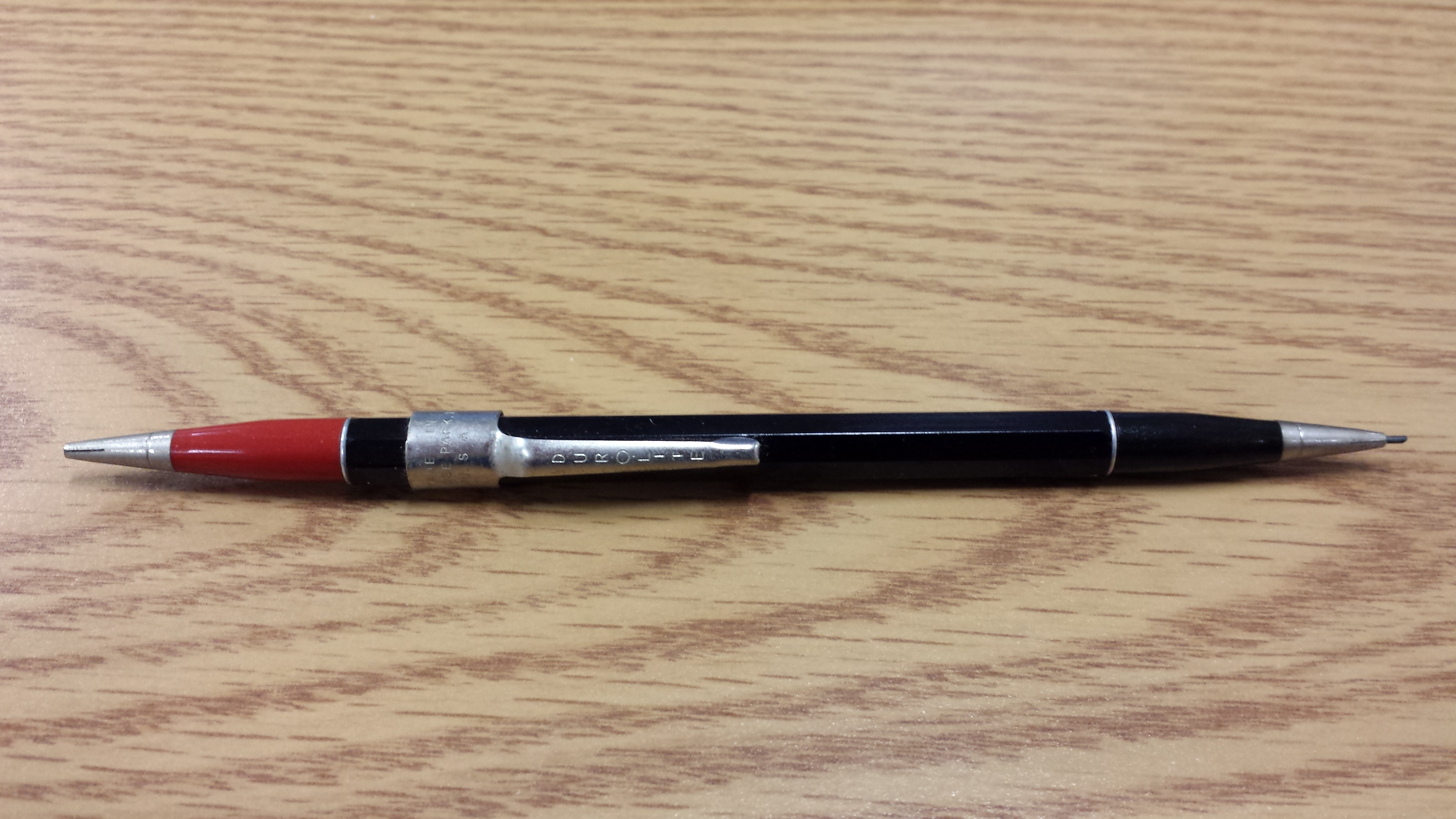 Dur-O-Lite DU-AD Model #560 Black Hexagonal Red and Black Lead Pencil